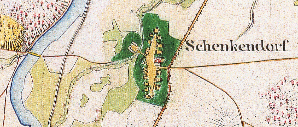 Schenkendorf, Sękowice, Gmina Gubin, Lubusz Voivodeship, Poland, section of the "Urmesstischblatt" Guben/Gubin no.4054 from 1845